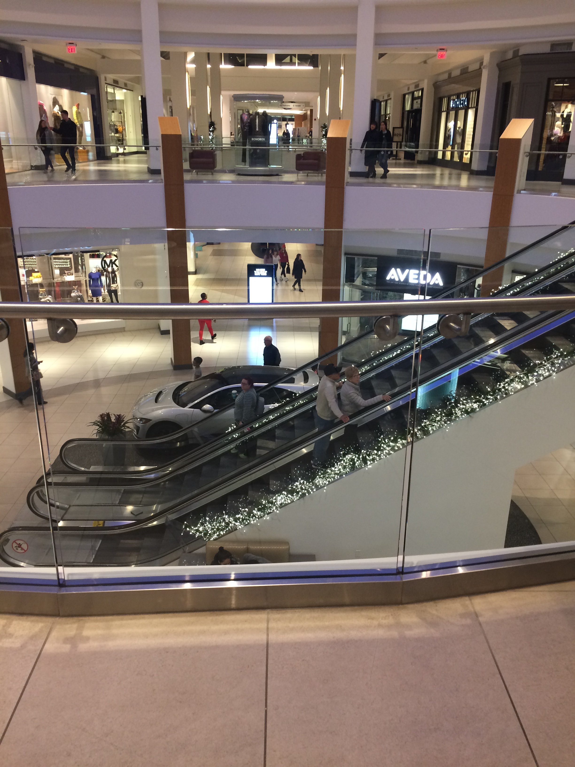 Fashion Mall at Keystone, Indianapolis, IN, November 2019.